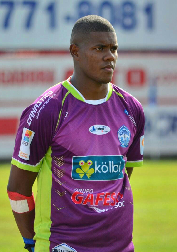 Darryl Parker playing for Pérez Zeledón in 2016.